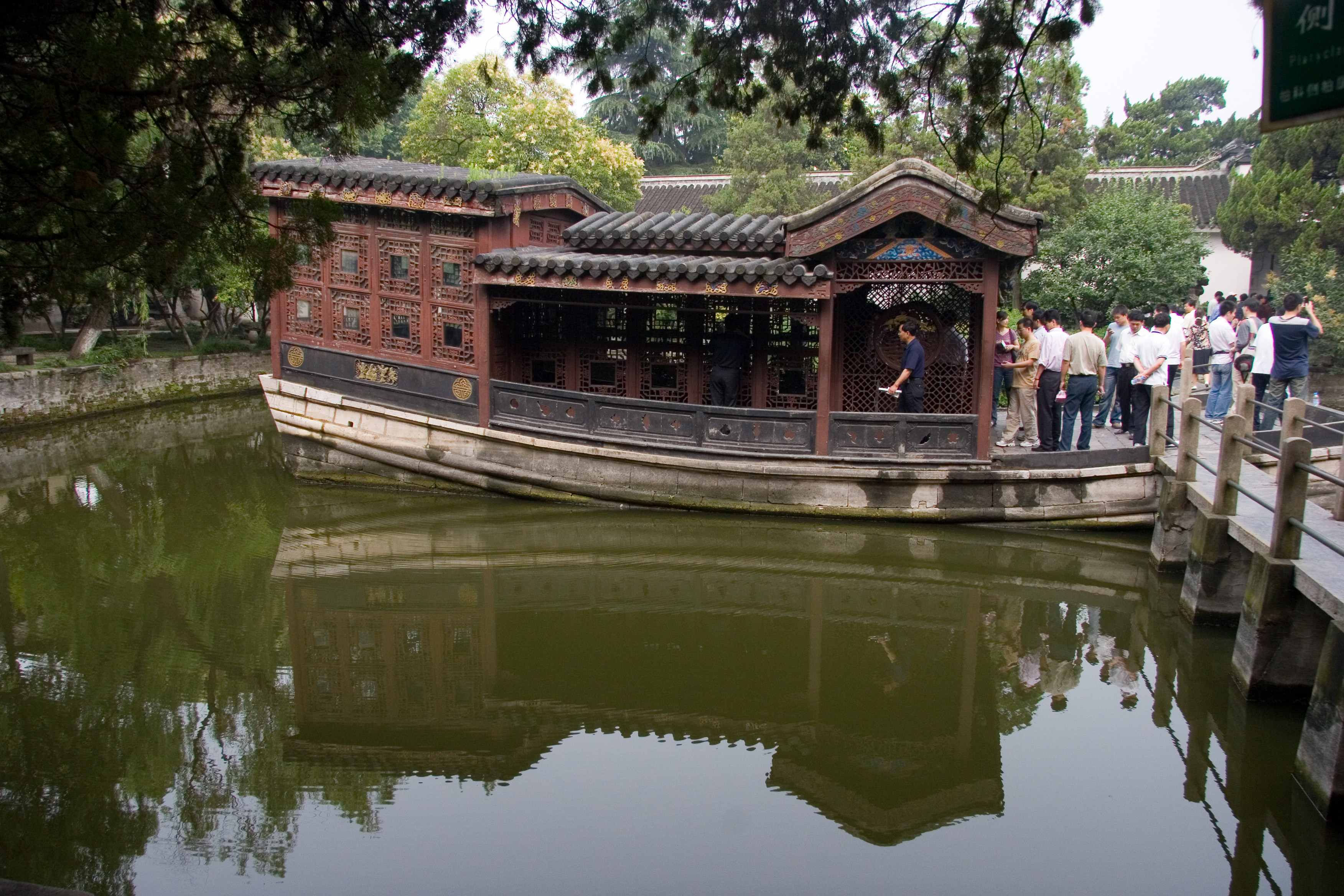 The marble boat in the imperial palace of the Taiping Heavenly Kindom in Nanjing.